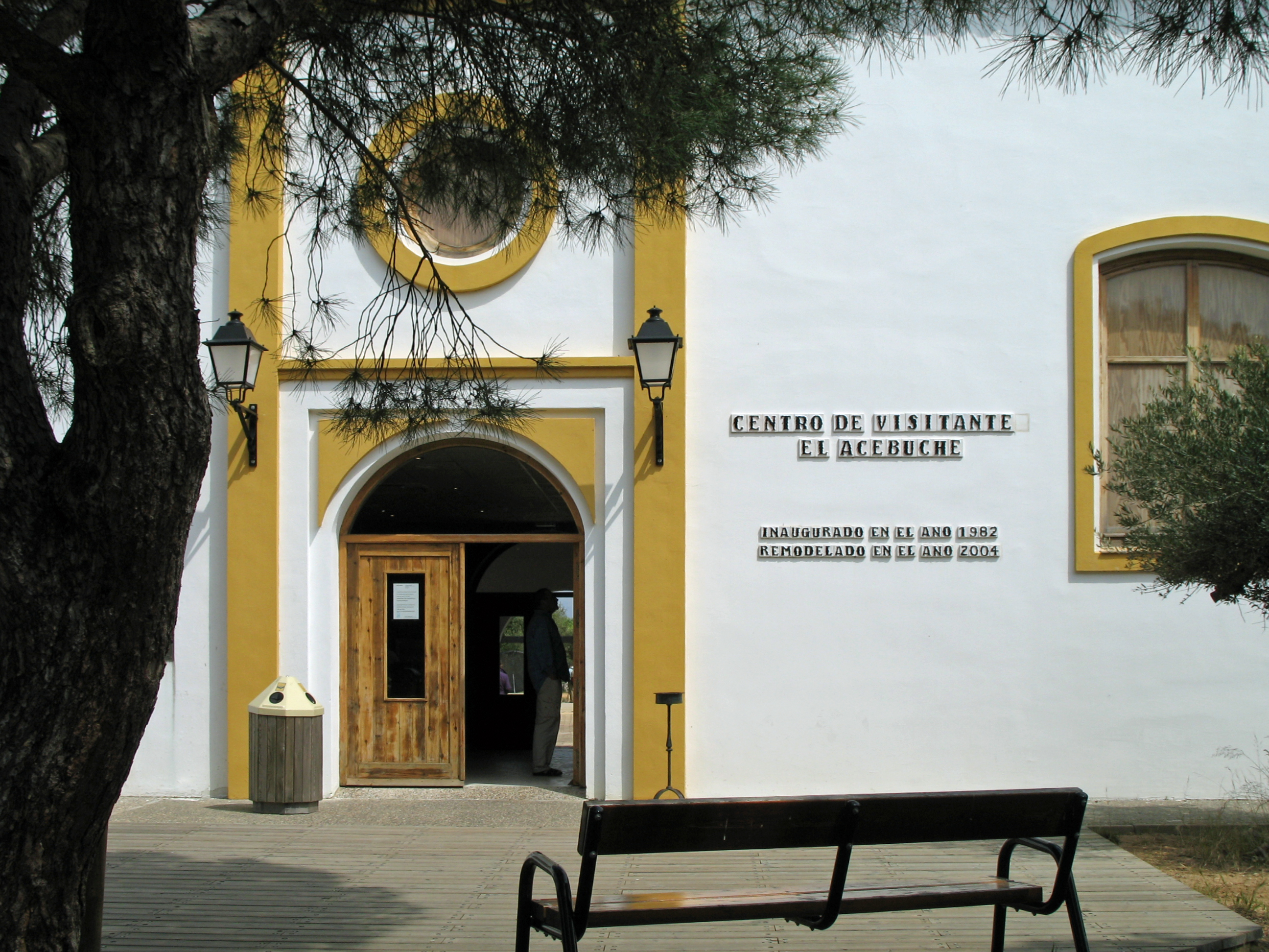 Doñana National Park, Visitors' Centre 'El Acebuche' (Almonte, province of Huelva, Spain)